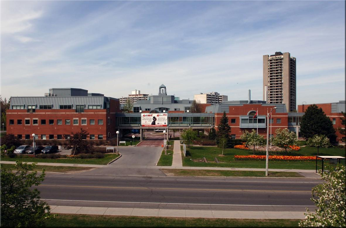 This is a photo of the main Head Office campus of Canadian Blood Services in Ottawa, ON. The photo is taken from across the street at 1815 Alta Vista Dr (Canadian Dental Association Building), which also houses employees of the organization.